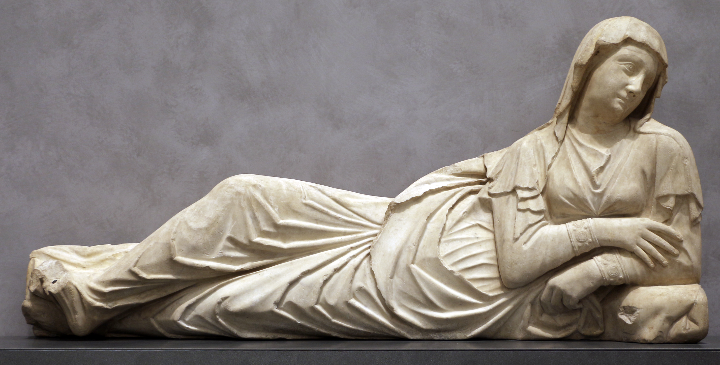 Museo dell'Opera del Duomo (Florence)